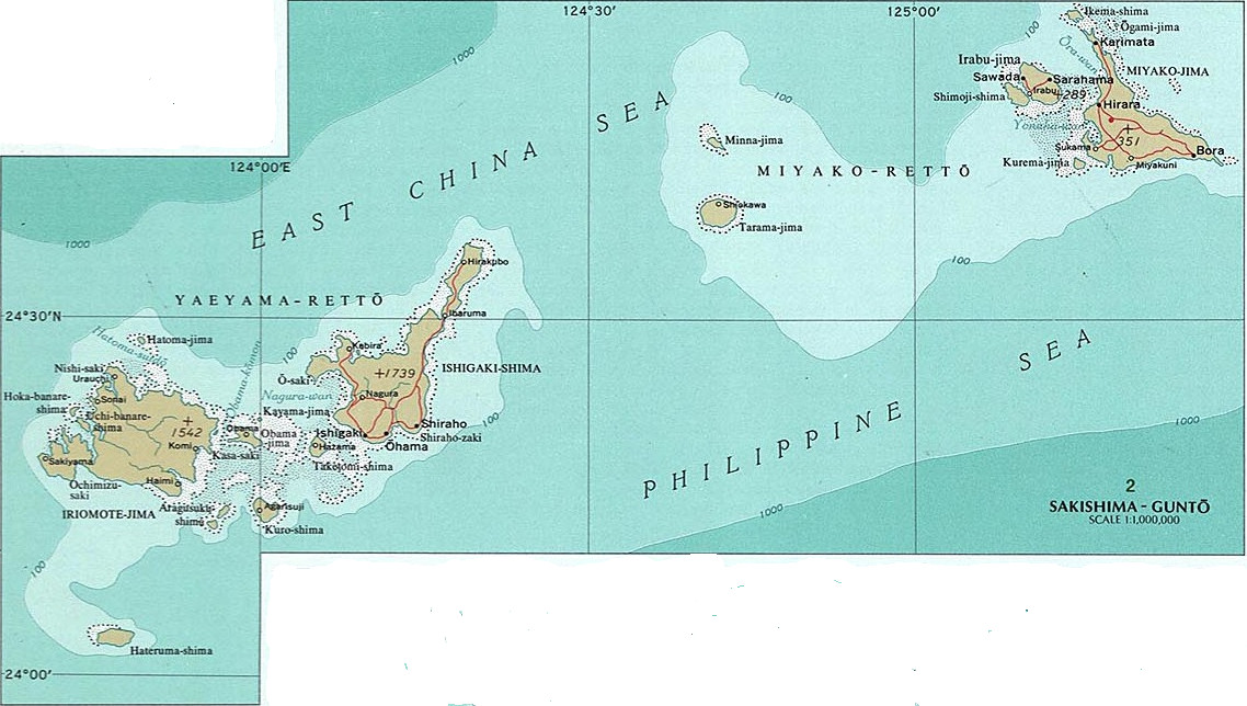 National Atlas of the United States, page "Pacific Outlying Areas", with map insets: Sakishima-Guntō